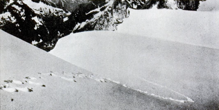 Alleged yeti footprints at the Himalayas found by Frank Smythe in 1937. Photograph was printed in Popular Science, 1952. The footprints were alleged to be from a yeti but were examined by experts and found indisputably to be bear's. Smythe accepted this conclusion. For his comments on the photograph see his articles: F. S. Smythe. (1937). Abominable Snowmen—Pursuit in the Himalayas—A Mystery Explained. Times (London), November 10. F. S. Smythe. (1937). The Abominable Snowmen. Times (London), November 16.